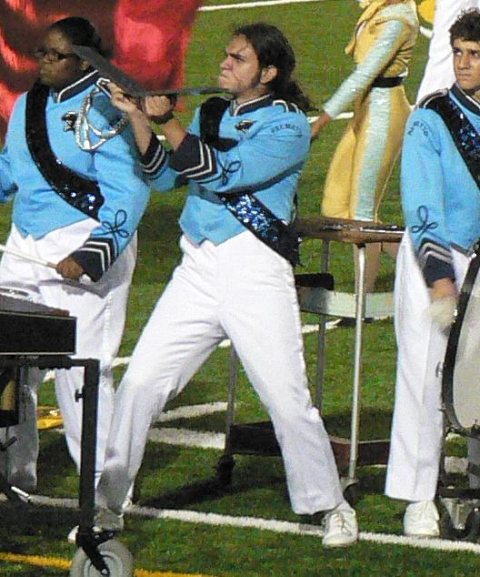 Slapstick (percussion instrument). (original:The slapstick being used in a marching band front percussion ensemble)